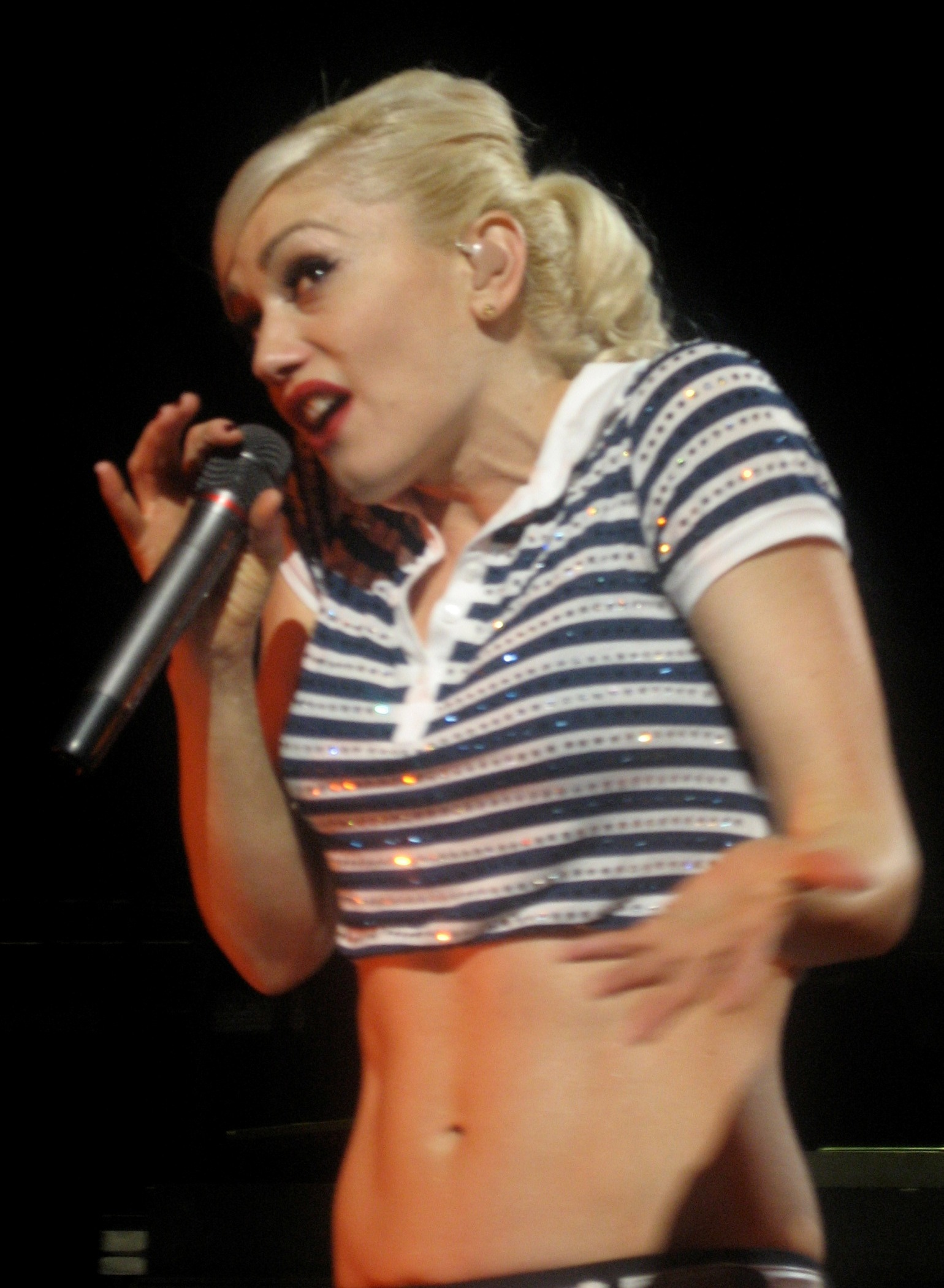 Gwen Stefani on stage in 2007.